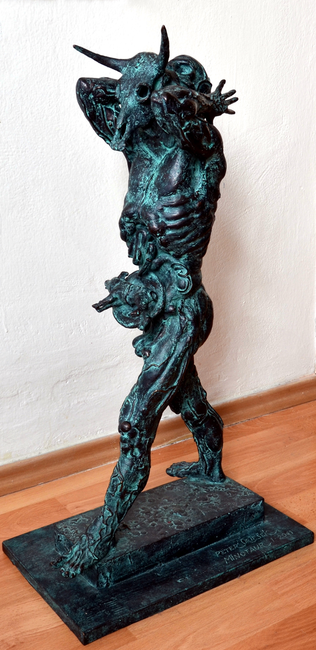 Peter Oriešek, Minotaur, bronze, h. 62 cm, 2011